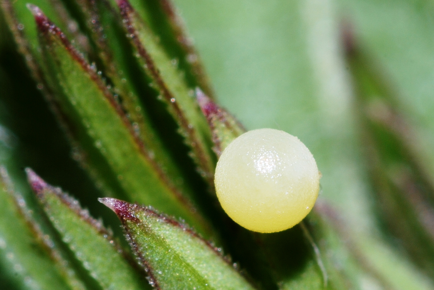 Egg of the butterfy Papilio machaon on one of its host plants : Silaum silaus